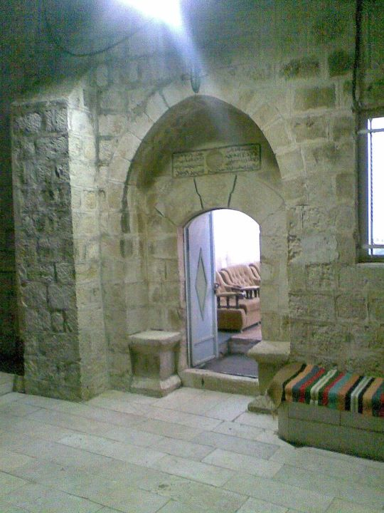 The Family History